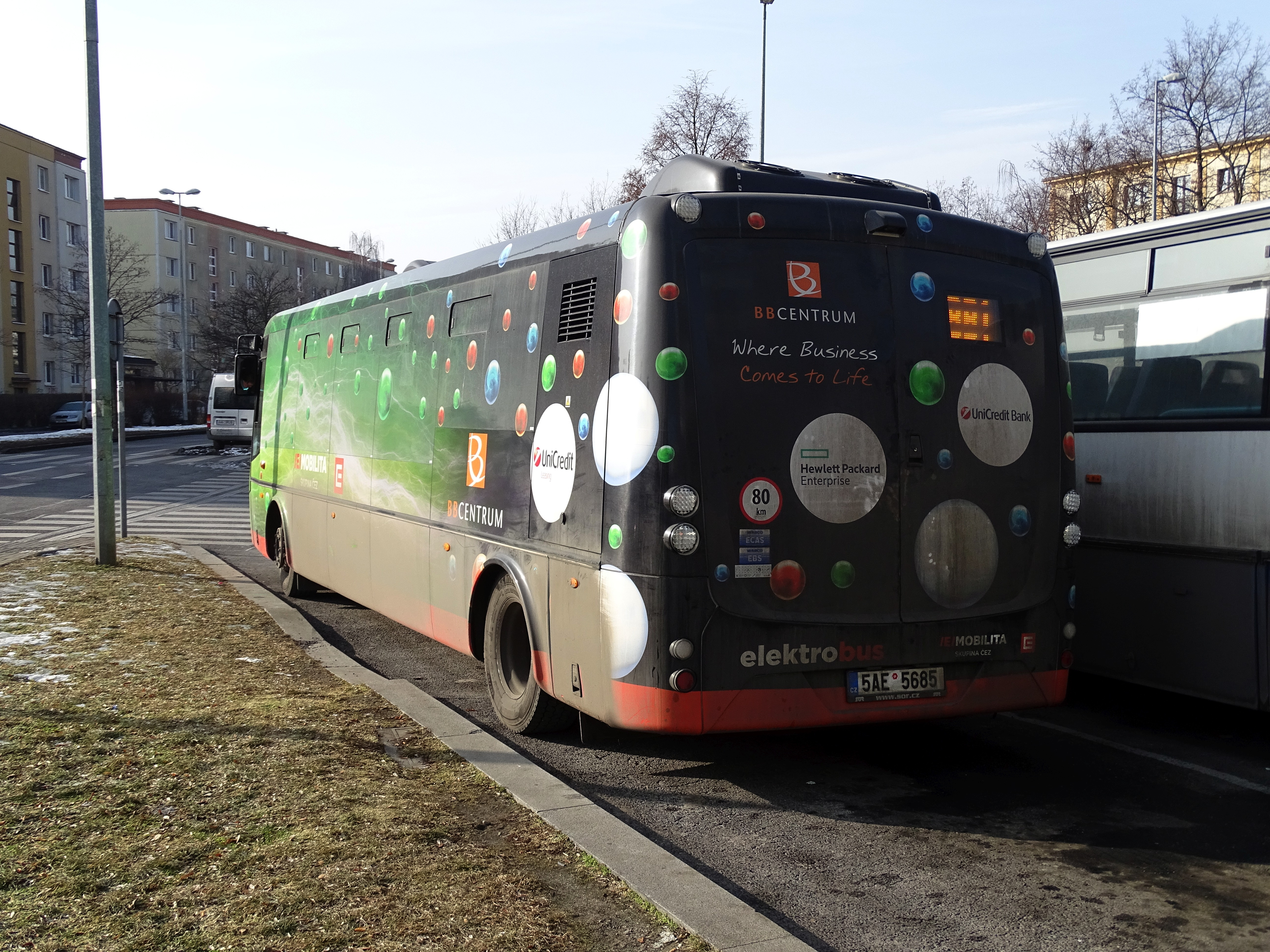 Prague-Krč, Czechia, Olbrachtova street, bus loop Budějovická, bus SOR EBN 9,5.